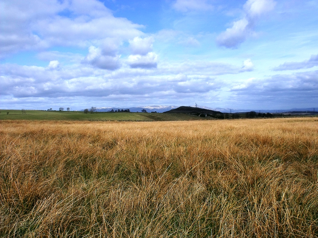 Green Grow the Rushes Oh' Only they were not green when this photo was taken in the spring of 2010. Myot Hill and the Ochils can be seen on the horizon.